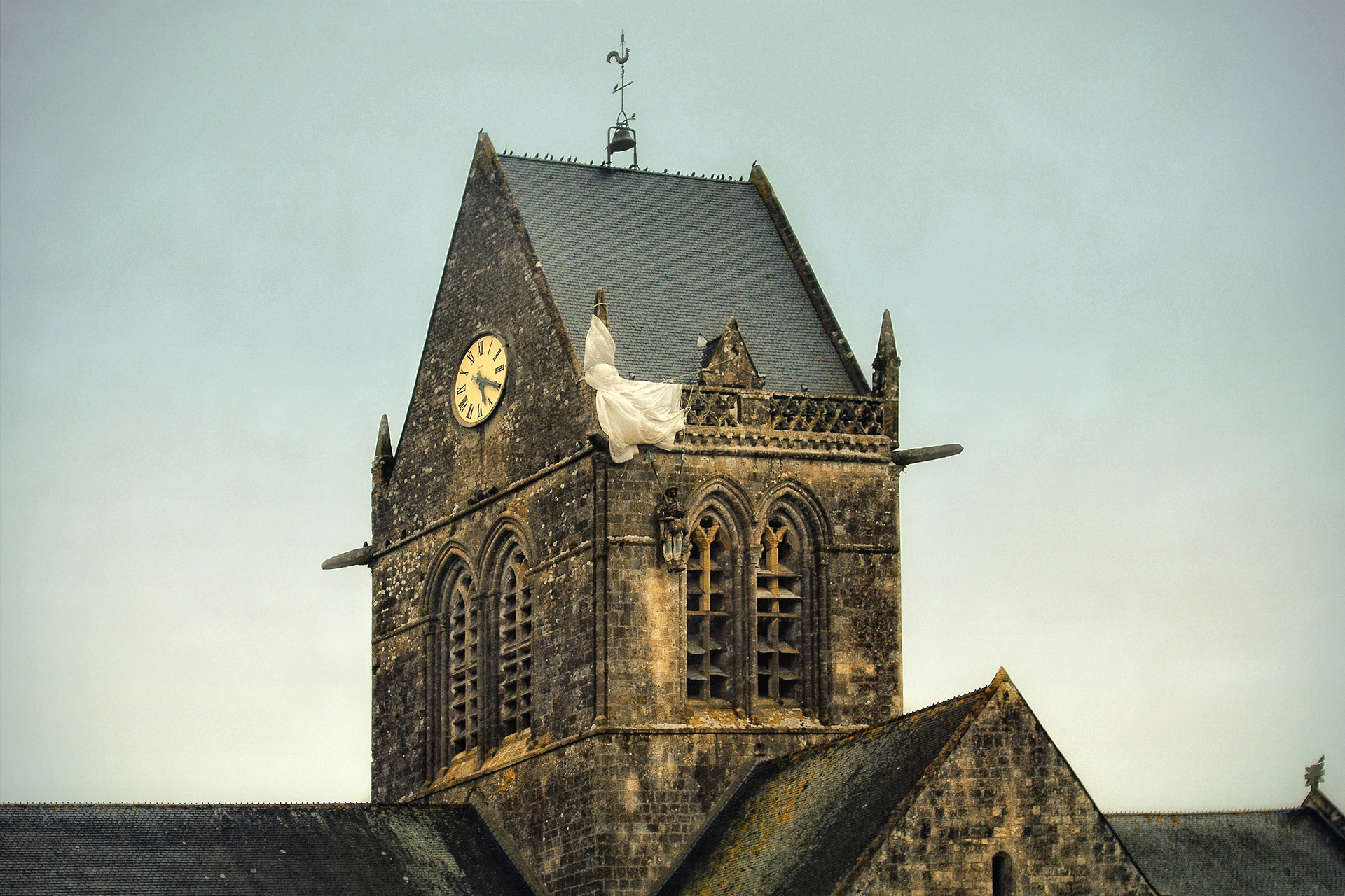 Cathedral with Parachute Memorial in Sainte-Mère-Église